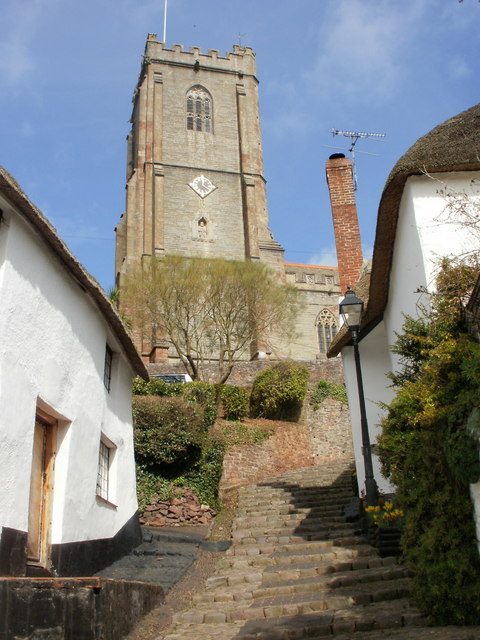 View up Church Steps, Minehead, Somerset, to the 15th-century west tower of St Michael's parish church. 1766926